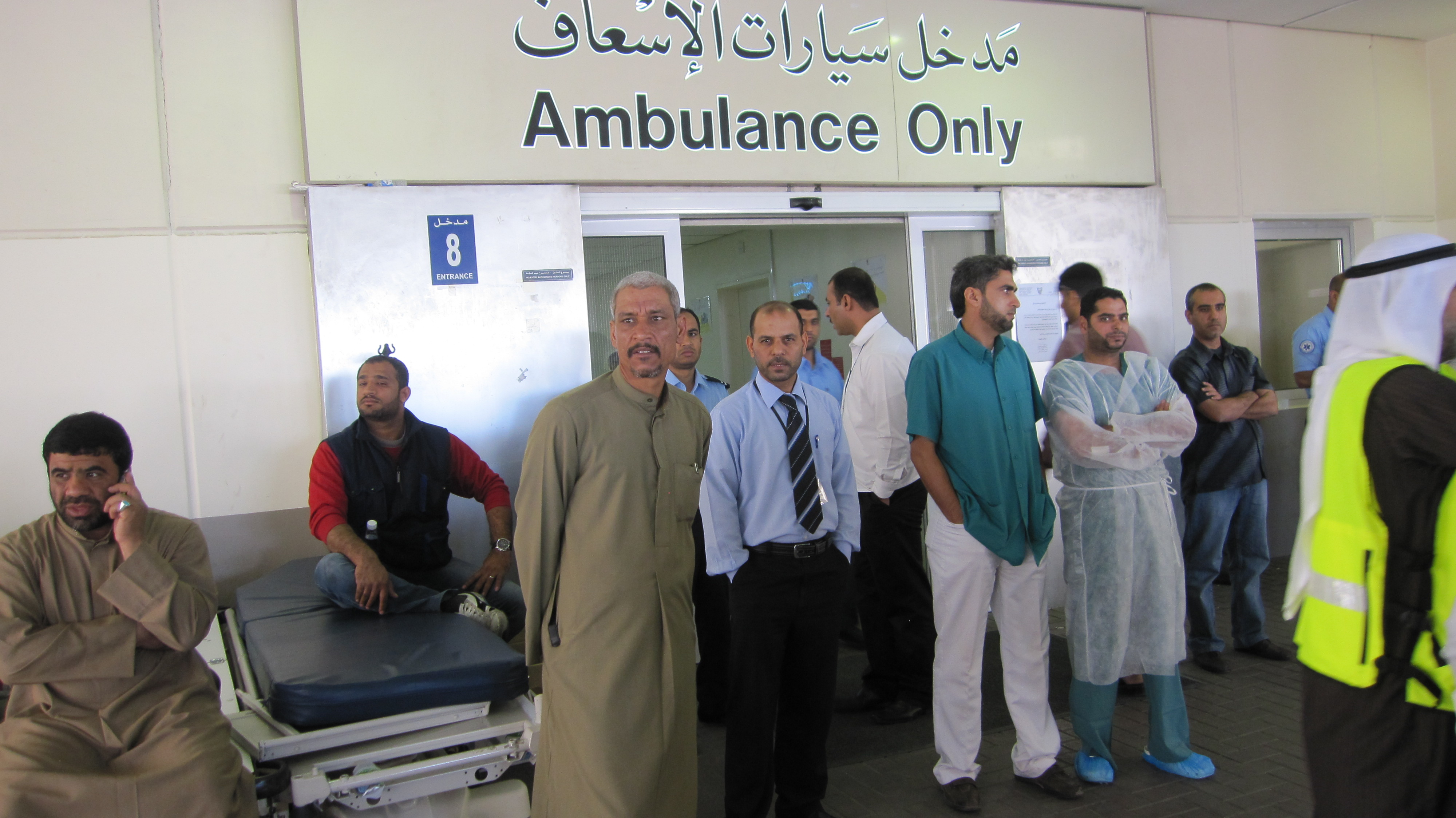 Employees at Salmaniya anticipated significant casualties from fresh clashes between police and protesters.